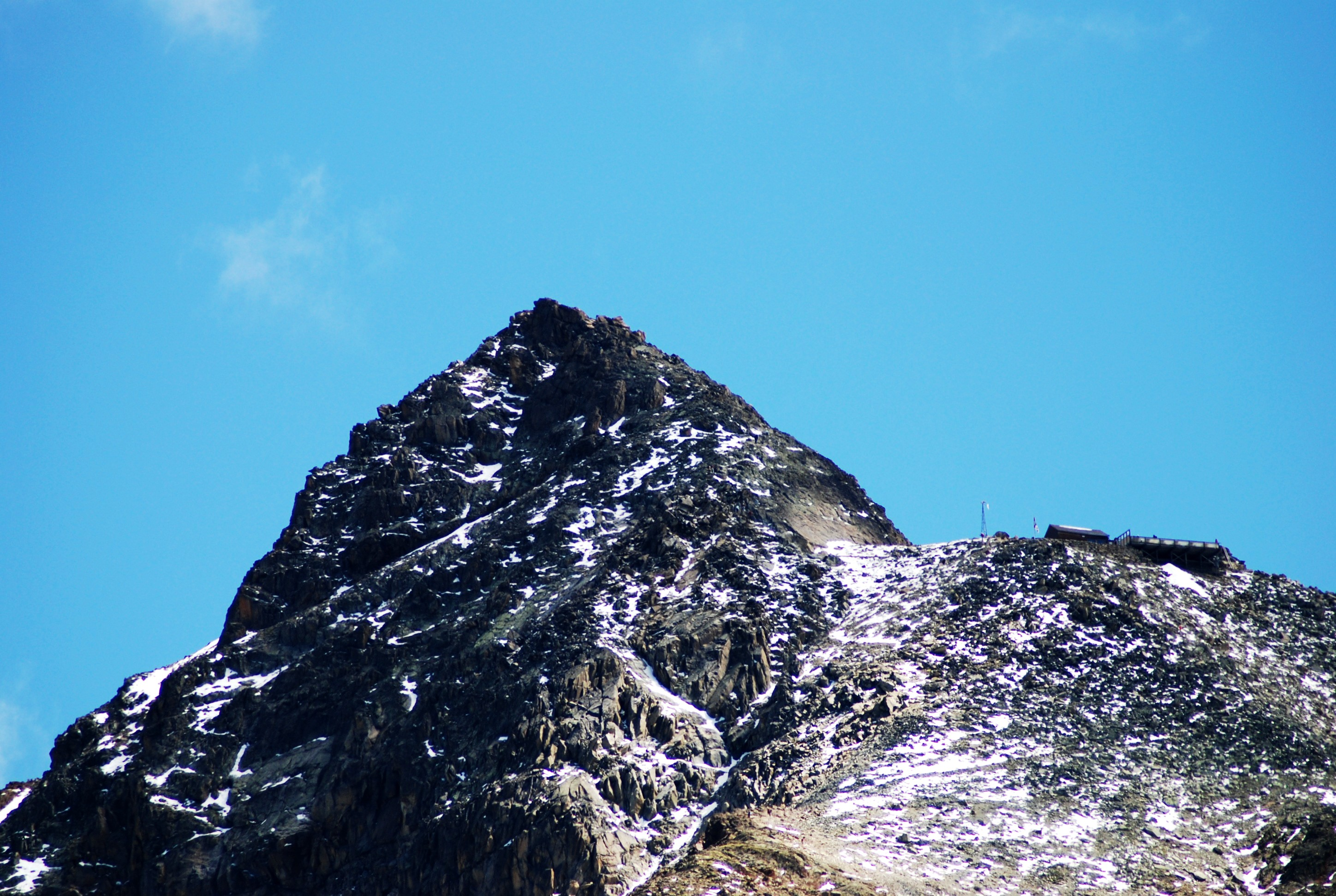 Piz Languard, Engadin